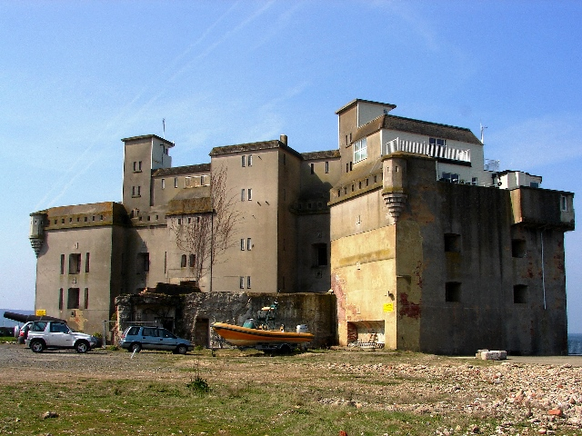 Fort Albert. The land side of Fort Albert which looks out over Hurst Channel at the western end of the Solent.